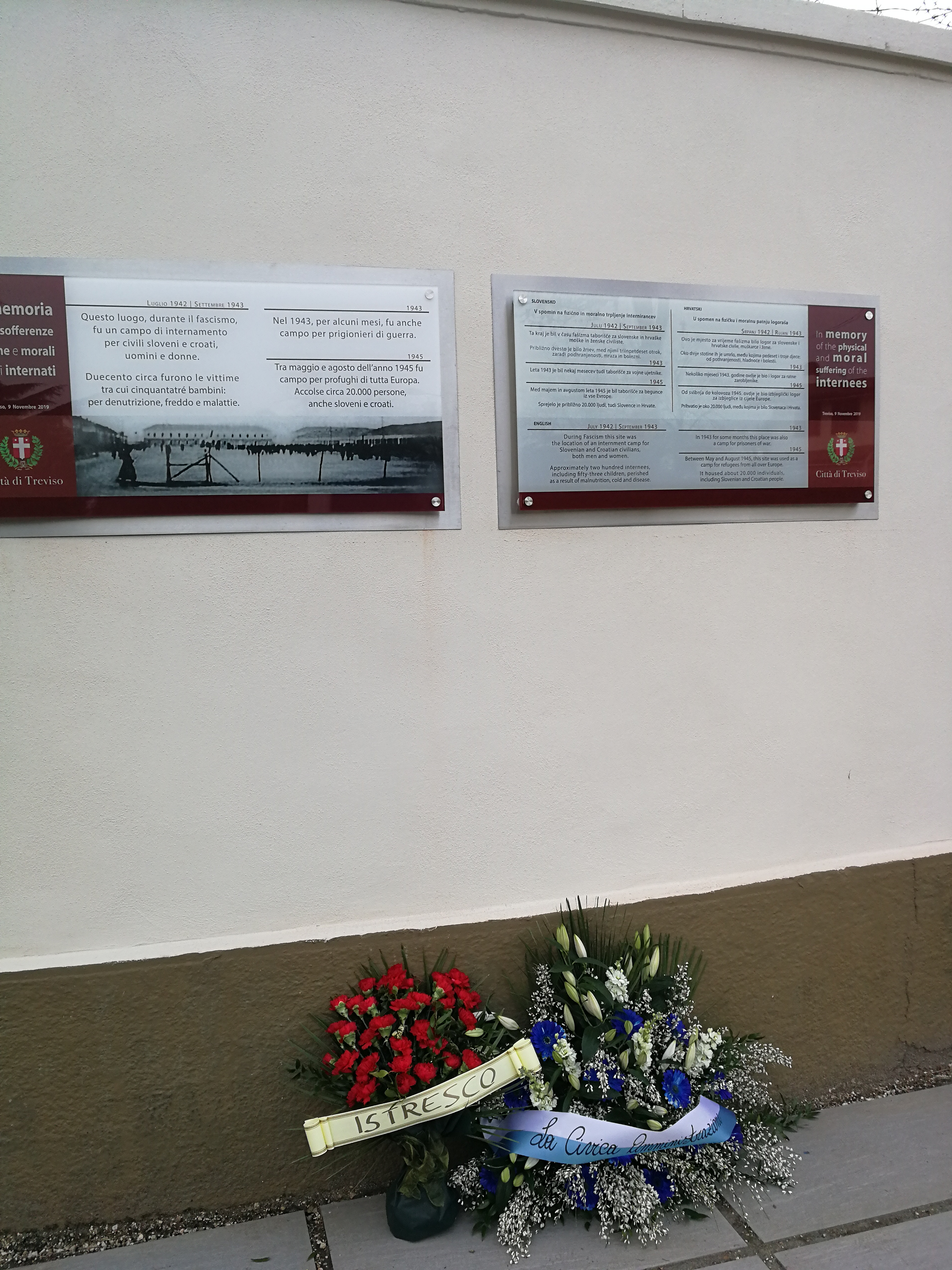 Memorial plaque on the outer walls of "Cadorin" barracks in Monigo (Treviso, Italy). Placed by Italian, Croatian and Slovenian authorities during a civil ceremony on November 9th, 2019.